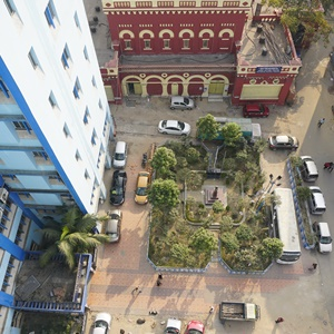 Eagle View of Academic Building NRS Medical College